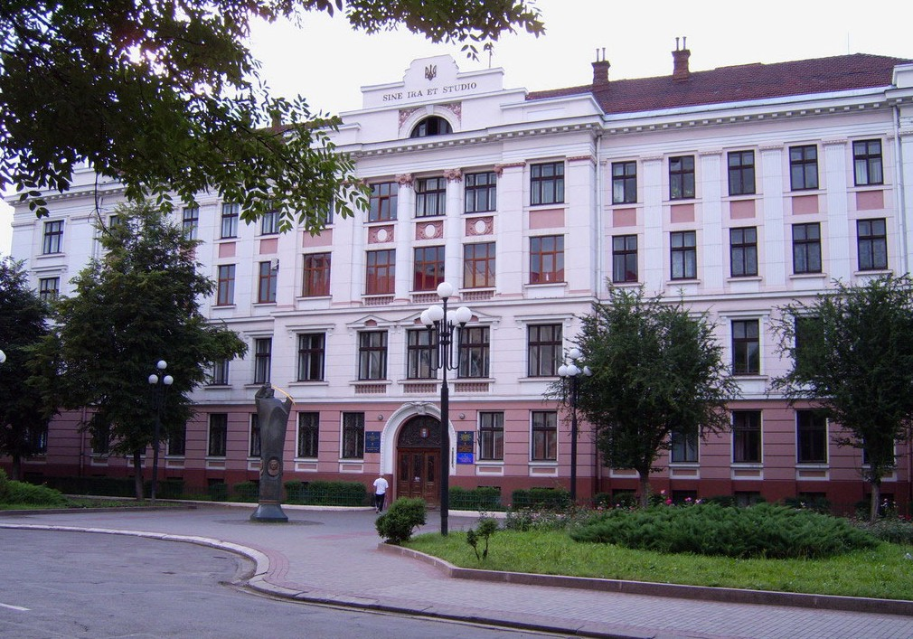 Апеляційний суд Івано-Франківської області